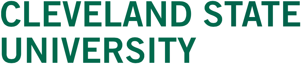 Logo for Cleveland State University.